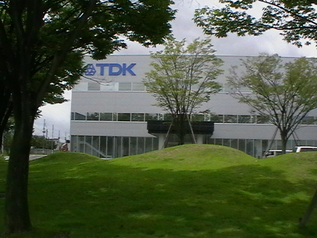 TDK-Lambda Nagaoka Technical Center, Nagaoka, Niigata Prefecture, Japan